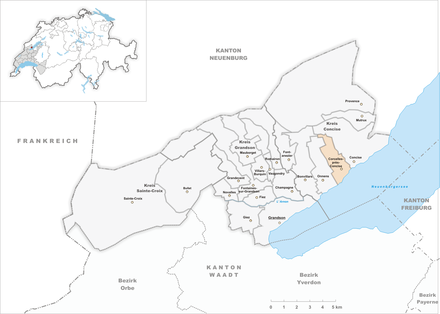 Municipality Corcelles-près-Concise